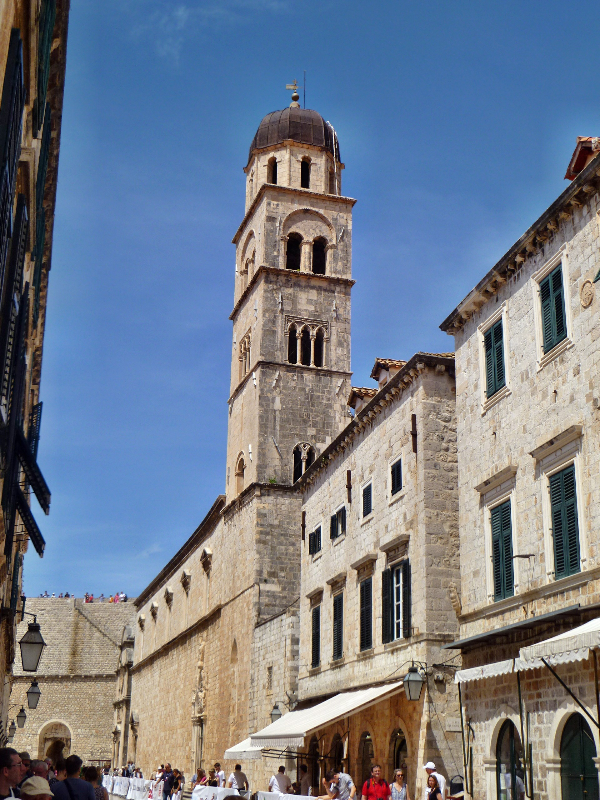 Church and bell tower of the Franciscan church, situated at the beginning of the Placa (main strete); Dubrovnik, Croatia